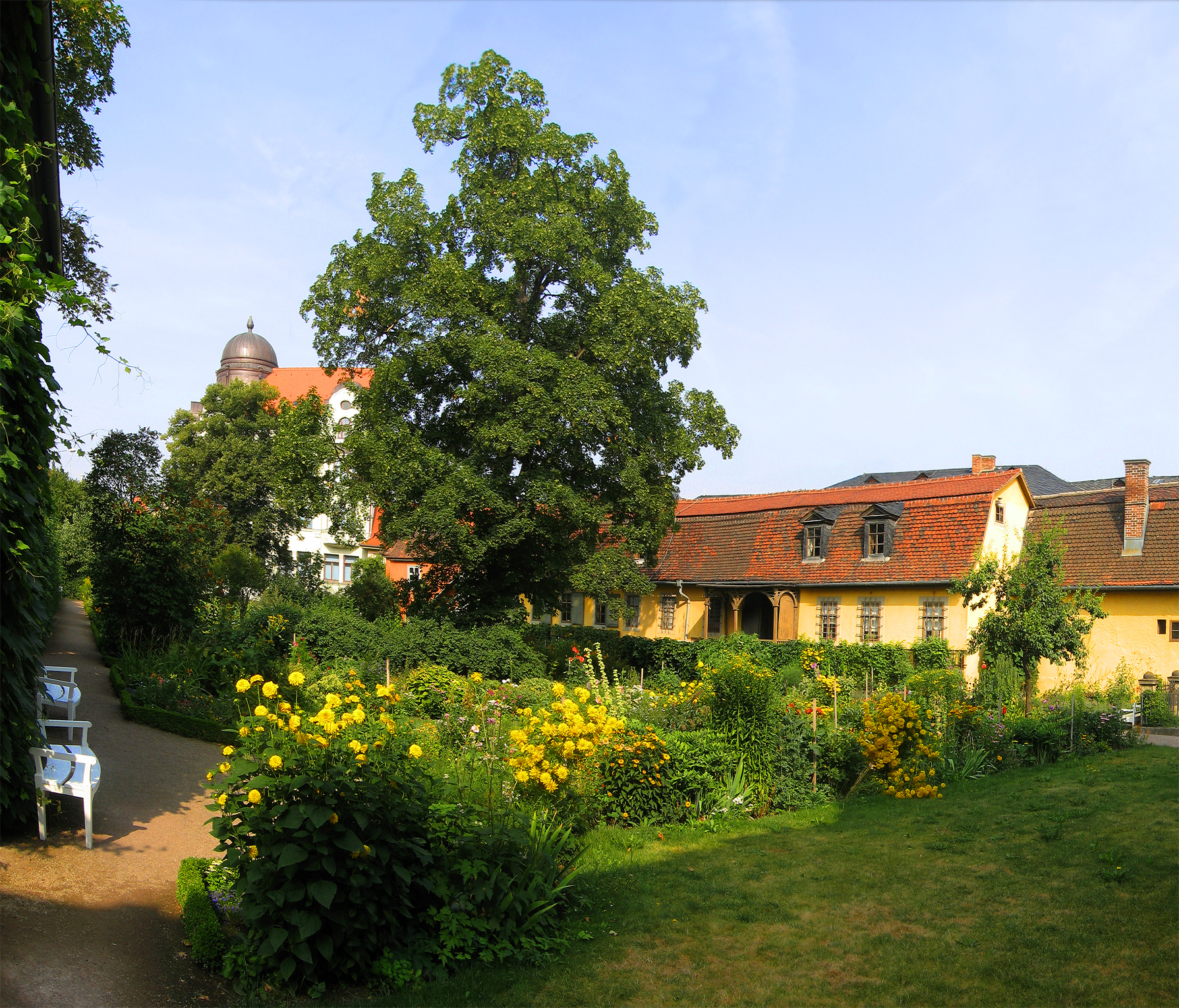 The garden of Goethe in Weimar.